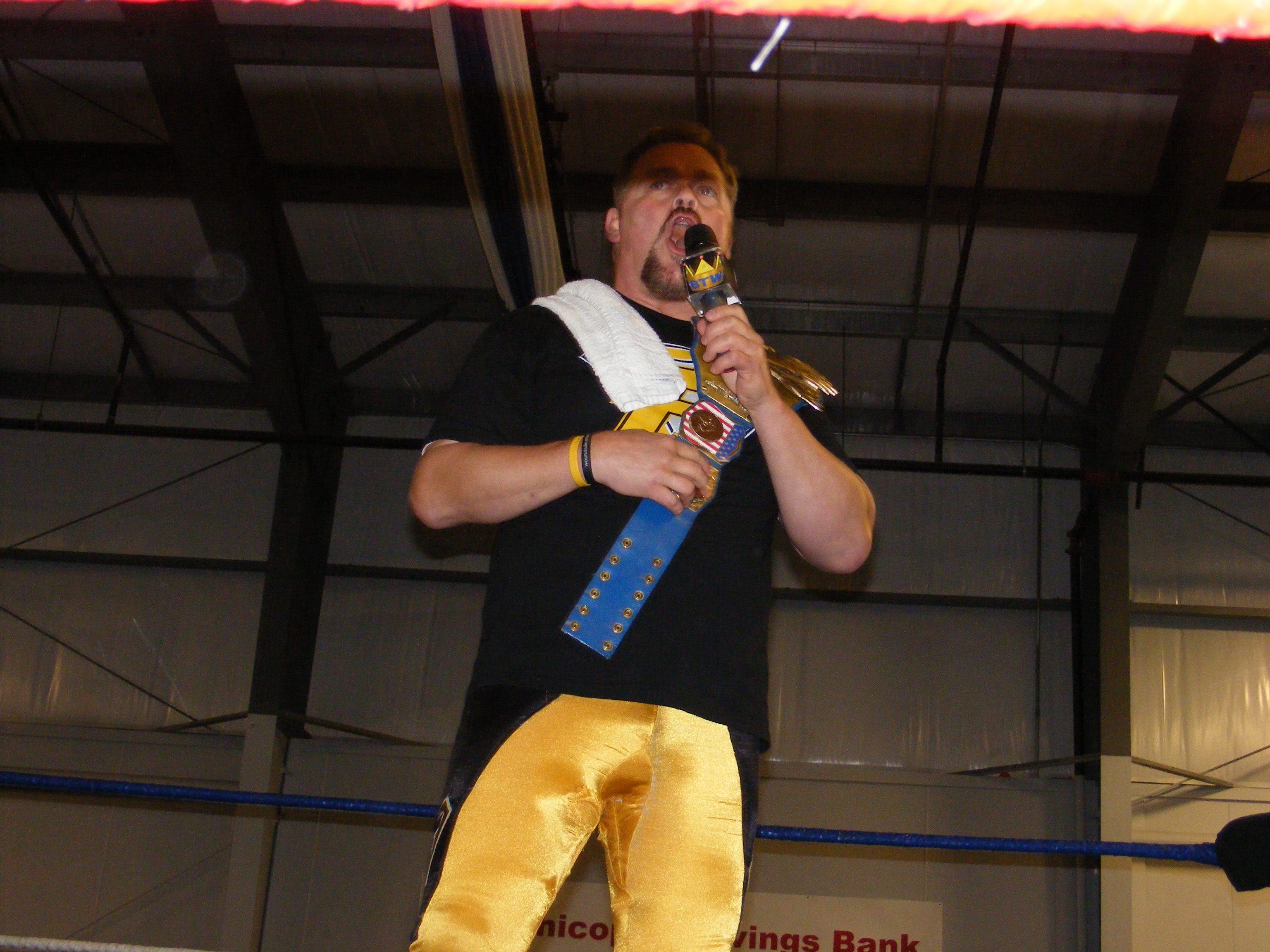 The Franchise Shane Douglas, BTW Champion, cutting a promo; BTW show; Chicopee, MA; March 26, 2011.